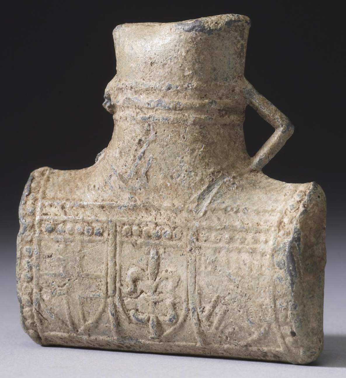 This rare pilgrim's flask, one of only a few to survive intact, was made to be worn around the neck as a protective talisman. It was once filled with holy water from the shrine of Saint Thomas Becket in Canterbury.